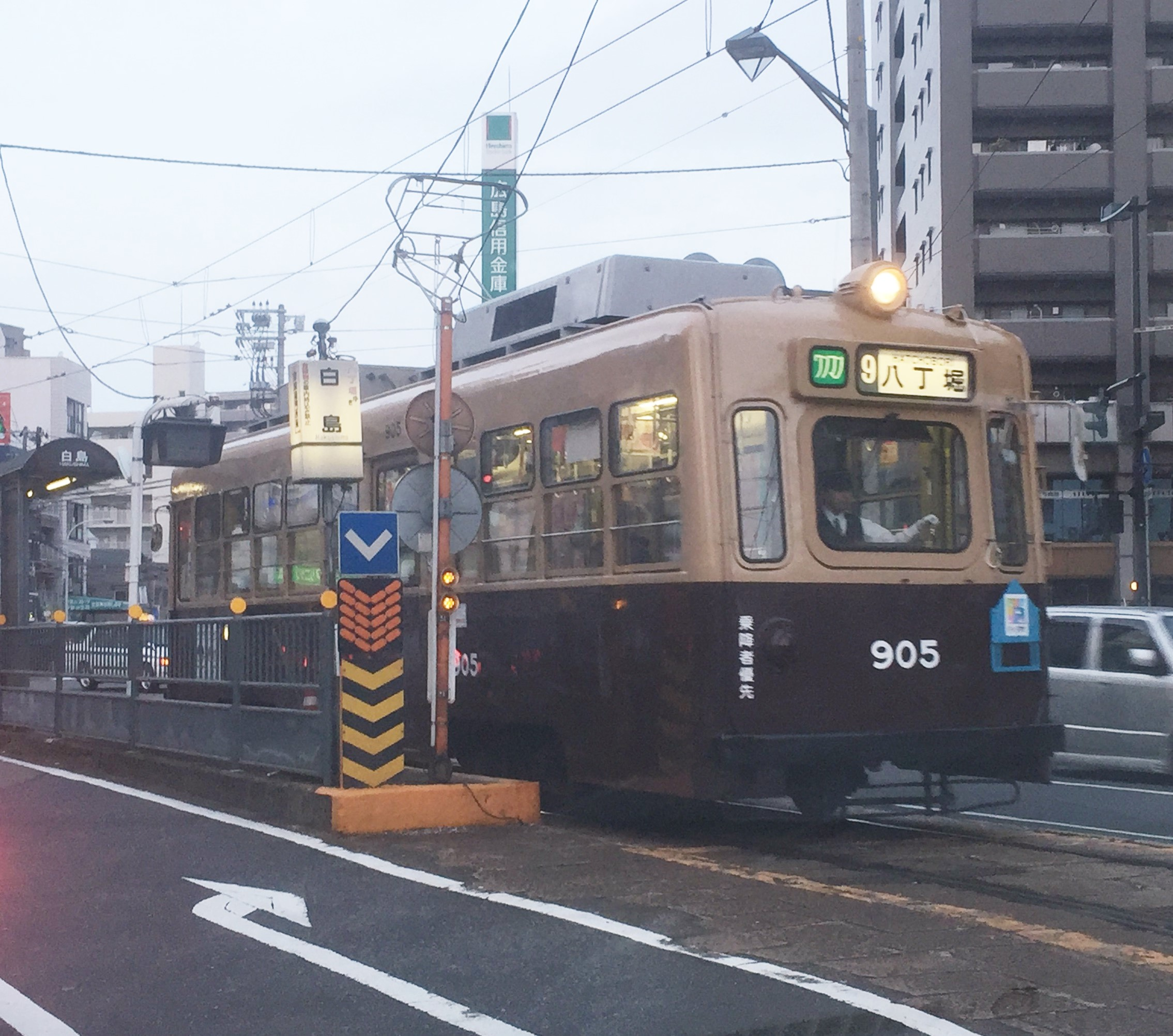 Hiroden 900 series tram car 905 at Hakushima Stop on the Hiroshima Tramway